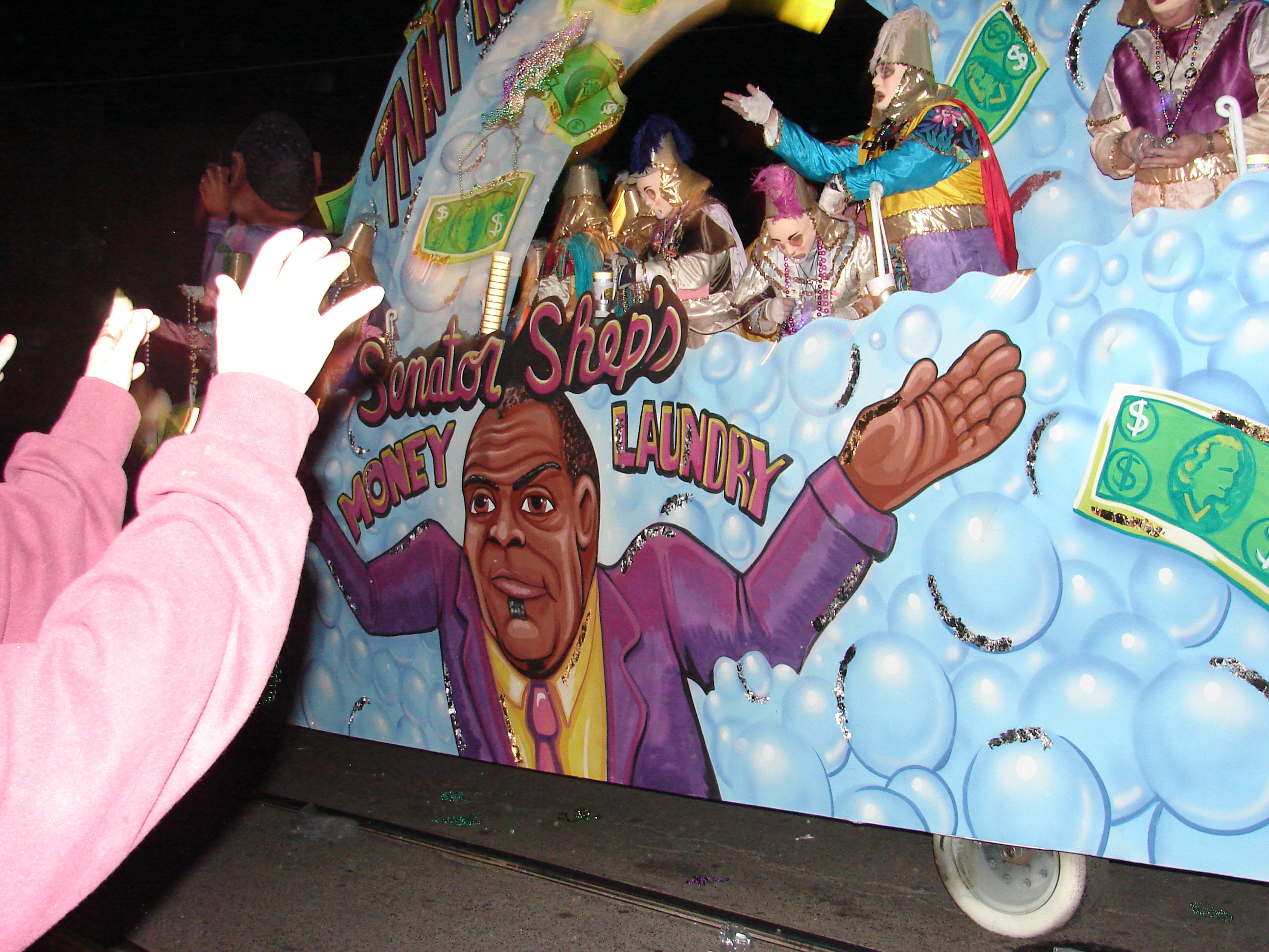 Float from Mardi Gras 2009 in New Orleans, lampooning the money laundering trial of Louisiana State Senator Derrick Shepherd.